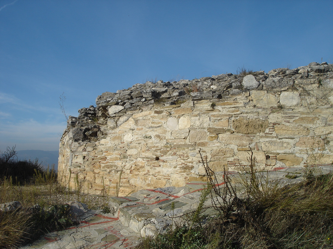 Remnants of the fortress Marko's Towers of Vodno mountain near Skopje, Macedonia